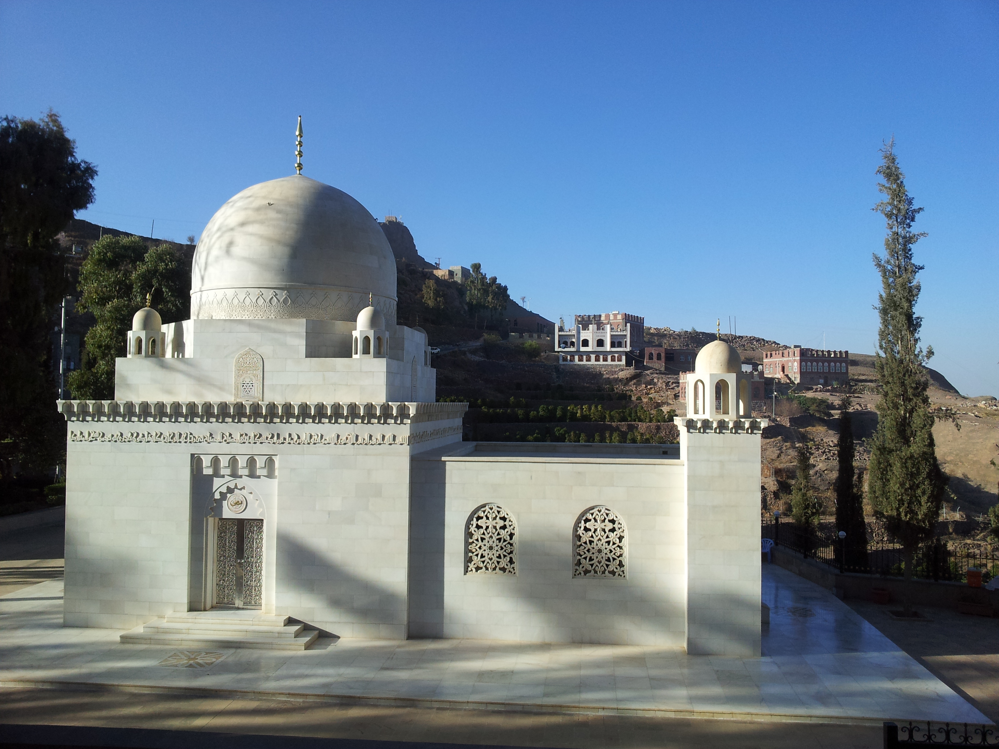 Rauda of Syedna Hatim, Hutaib, Yemen